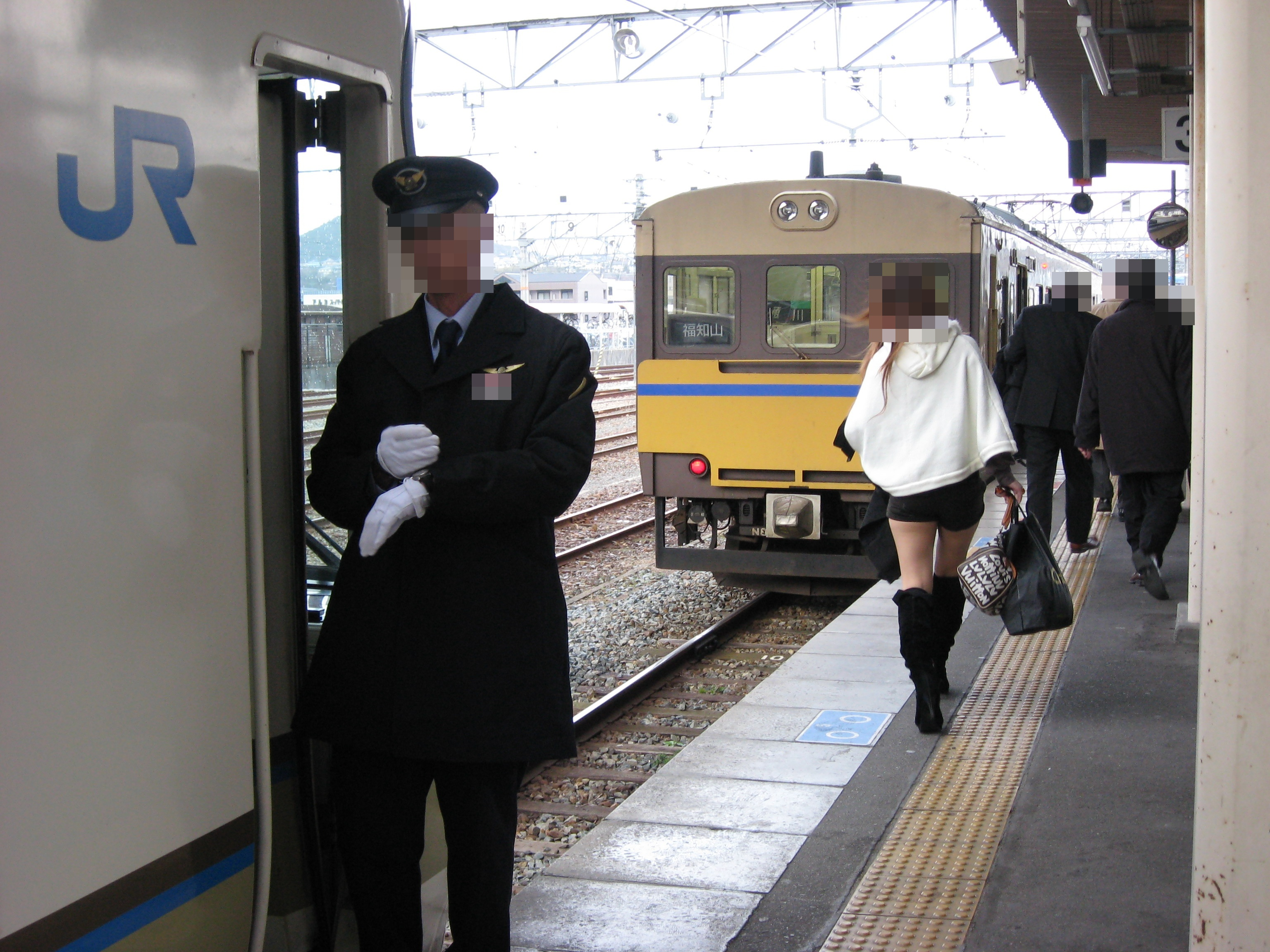 Column Parking of JR West Sasayamaguchi Station